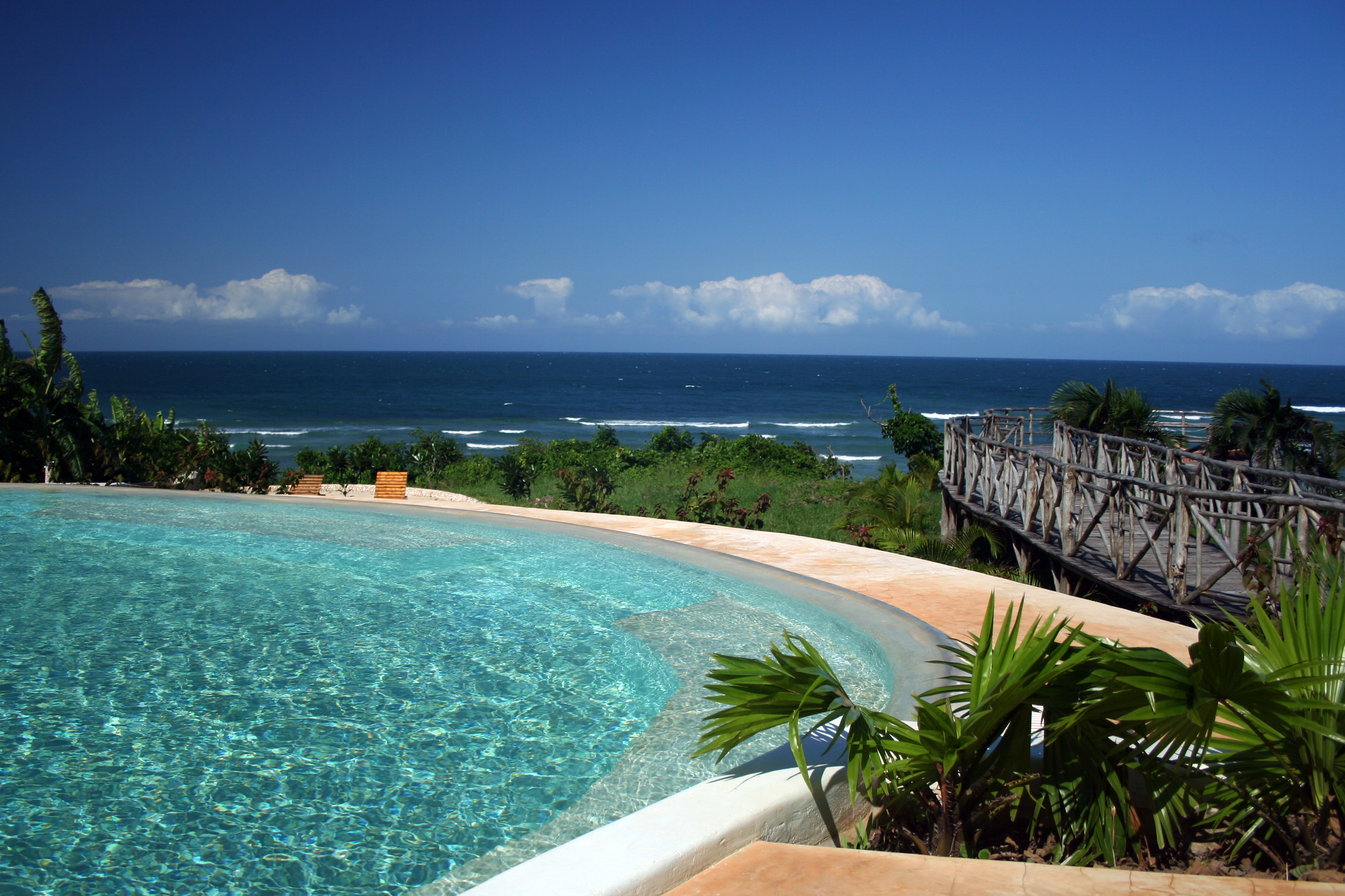 Msambweni Beach House, Kenya.